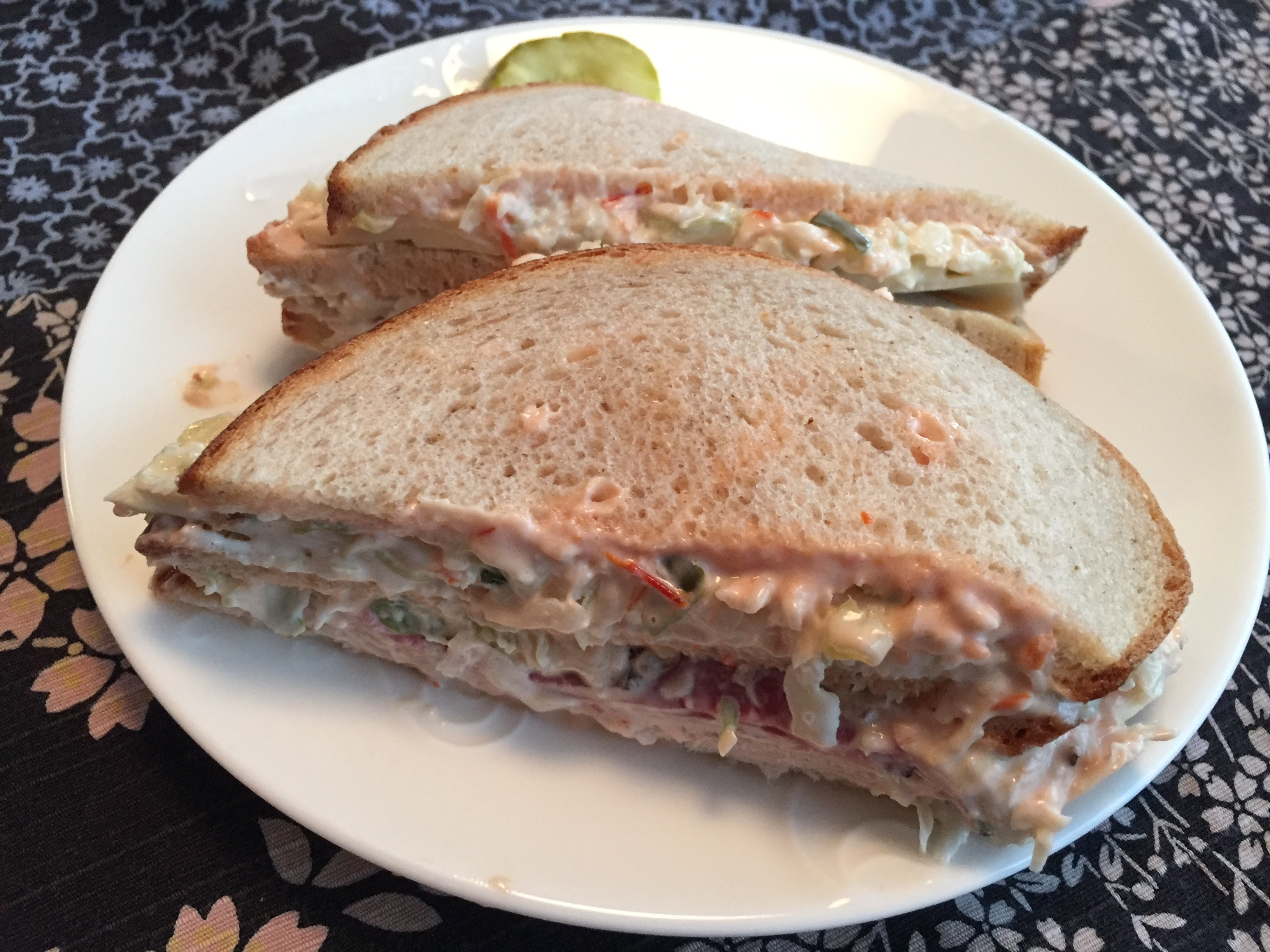 Turkey and pastrami sloppy Joe from Millburn Deli